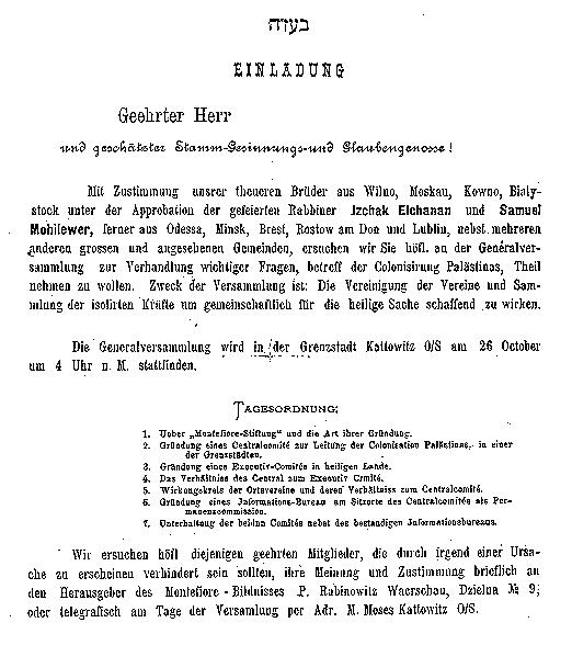 German invitaion to the Kattowitz Conference